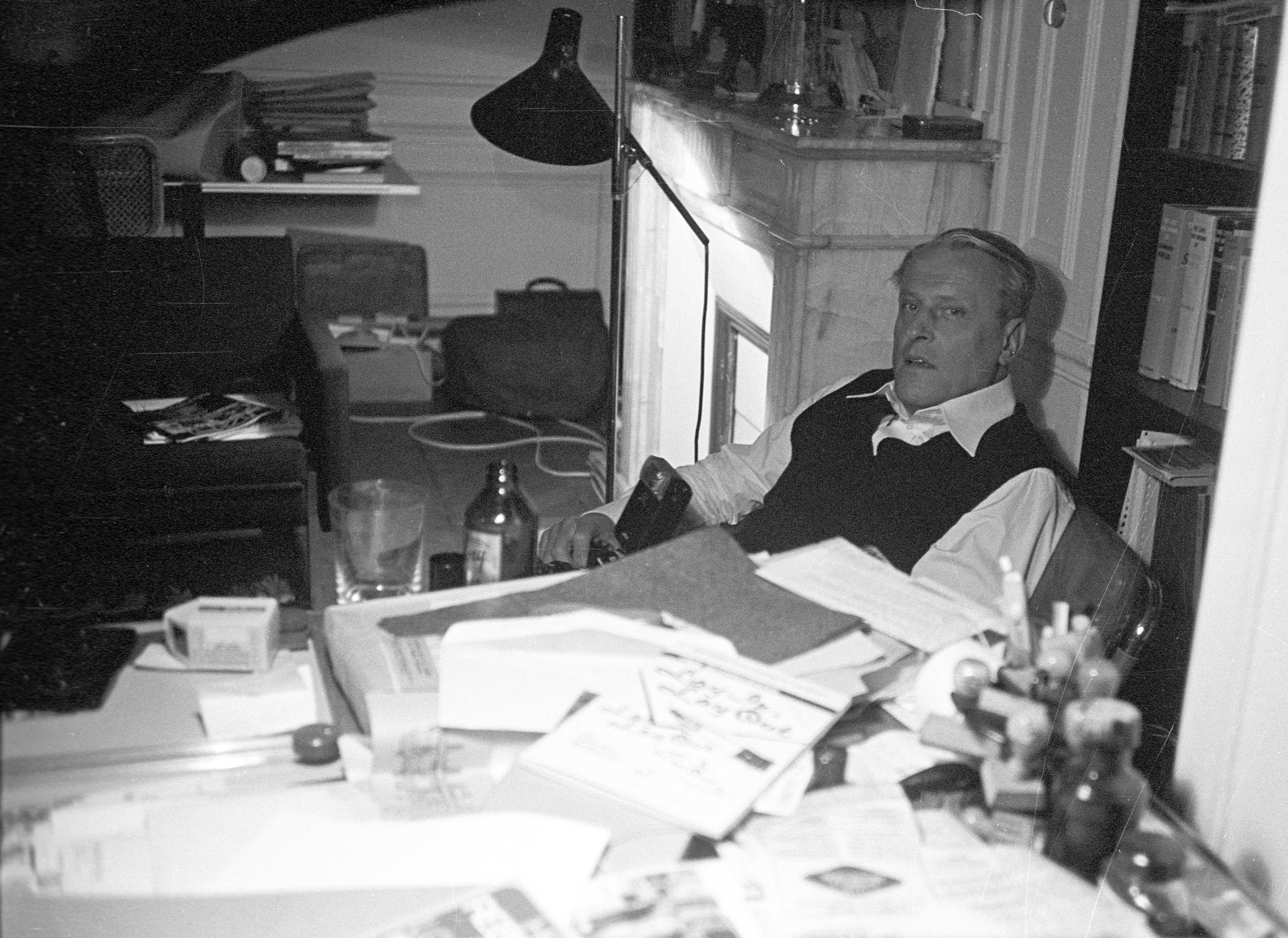 Willem Frederik Hermans during an interview with FURORE's Piet Schreuders, Paris, May 12, 1977. On his desk is a copy of Schreuders' "Lay In - Lay Out". Photo first published in WFH-Verzamelkrant #9, December 1993, page 21 Photo kindly made available under CC-BY-SA by Mr Schreuders